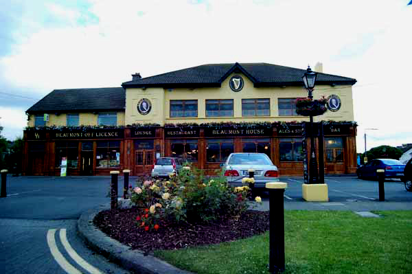 Beaumont House, near to Beaumont, Kilmore, Drumcondra, Artane and Marino, Dublin, Ireland. Shantalla Road, Dublin